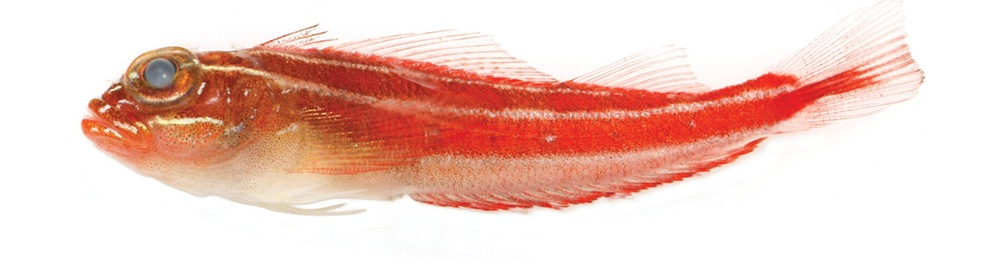 Helcogramma striata, NTOU-P 2009-06-048, 27.4 mm SL, Chuan-fan-shi, Pingtung, Taiwan.